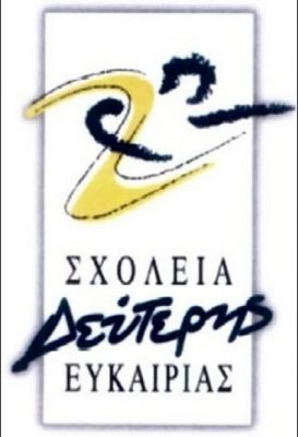 Logo INEDIVIM SDE